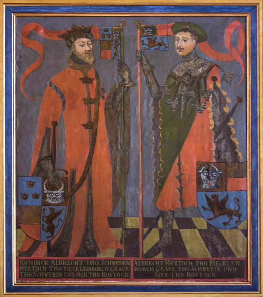 Interior of church in Gadebusch